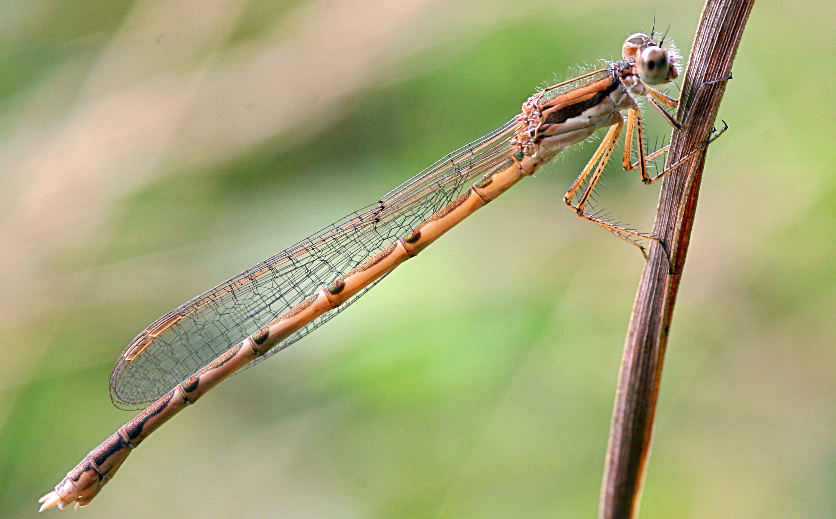 Common Winter Damselfly